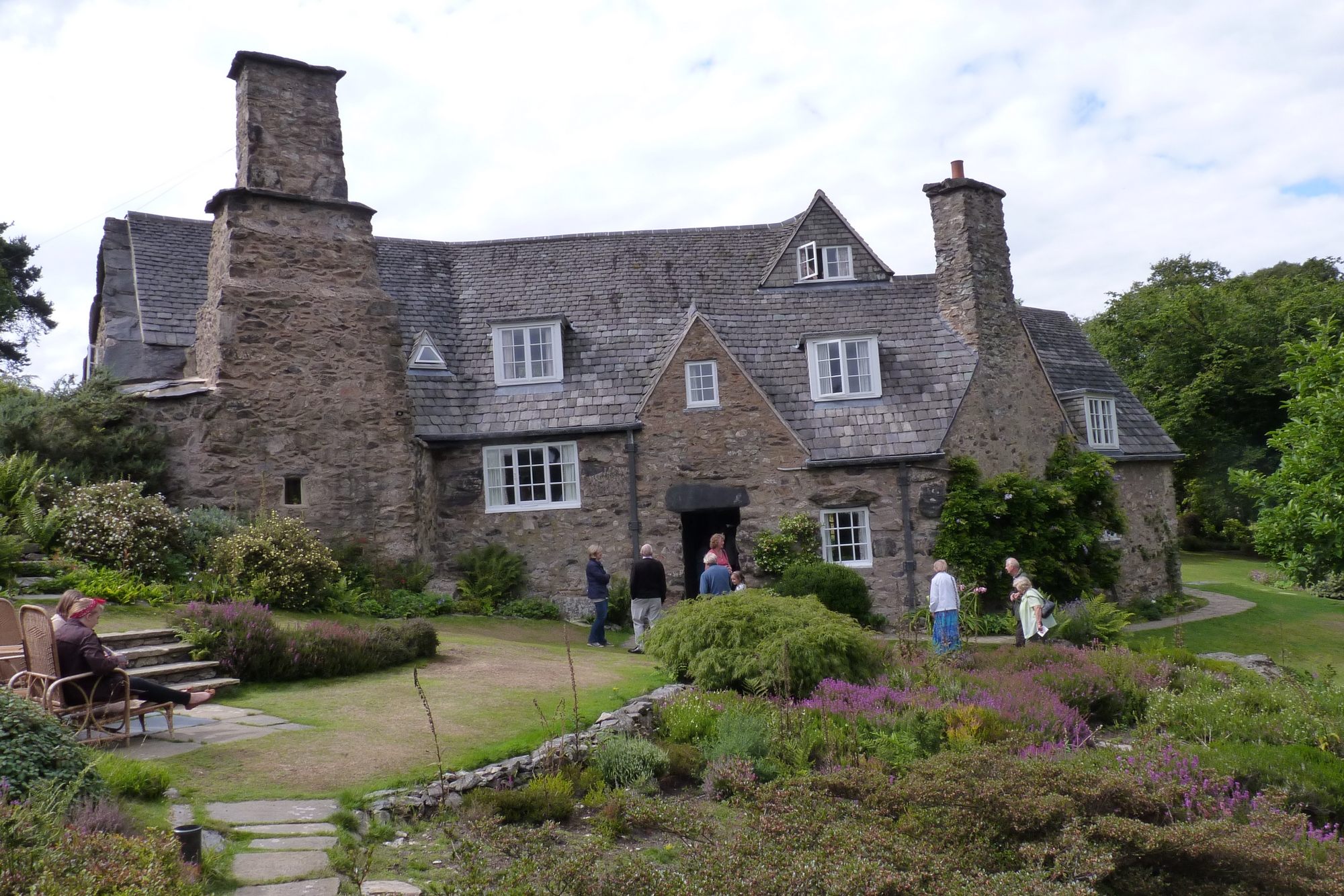 Earnest Gimson's Arts and Craft House (1899) in Charnwood Forest, now a National Trust property.